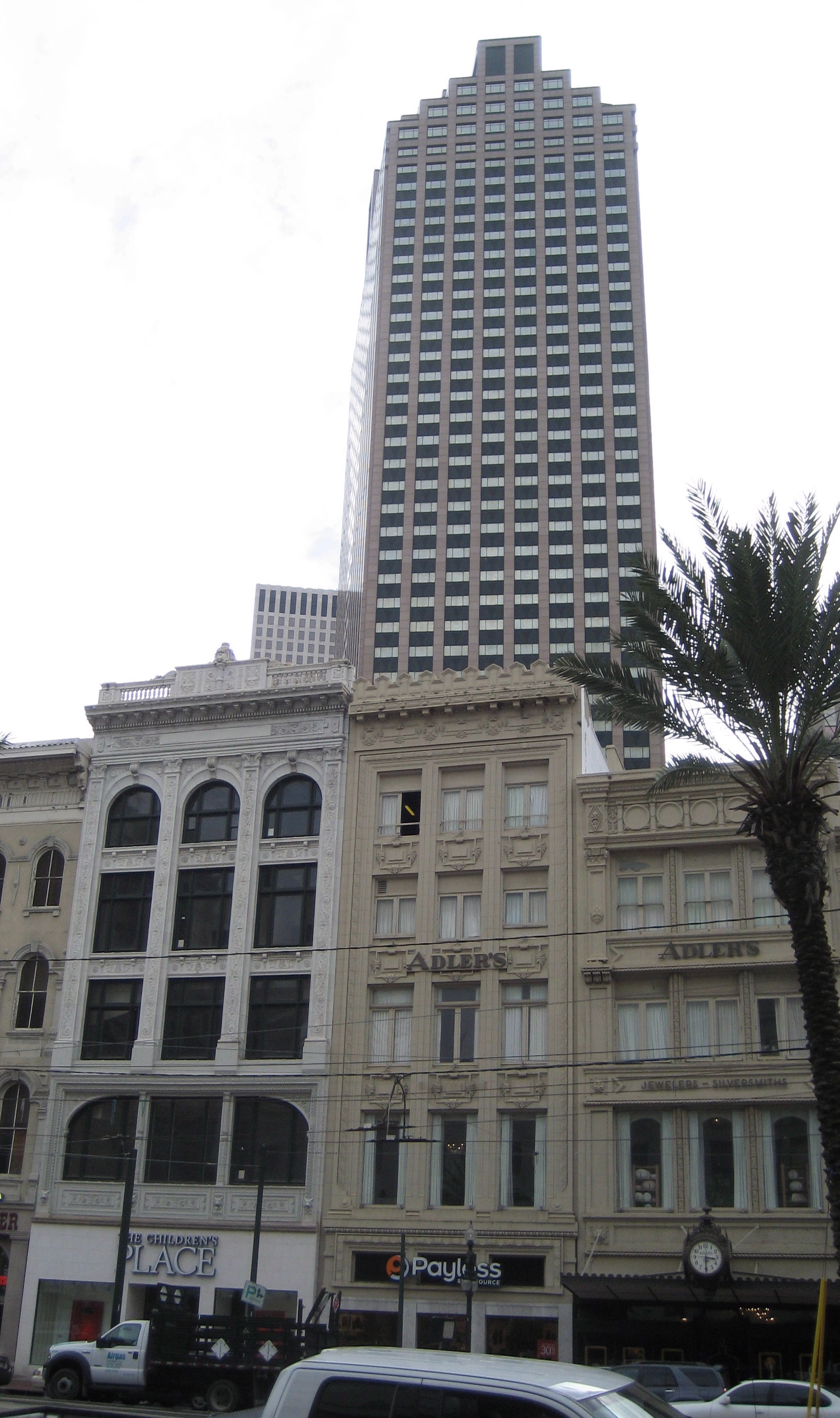 New Orleans: View on Canal Street showing business in 19th century commerical architecture along the street, with the sky-scraper of Place St. Charles in the background.